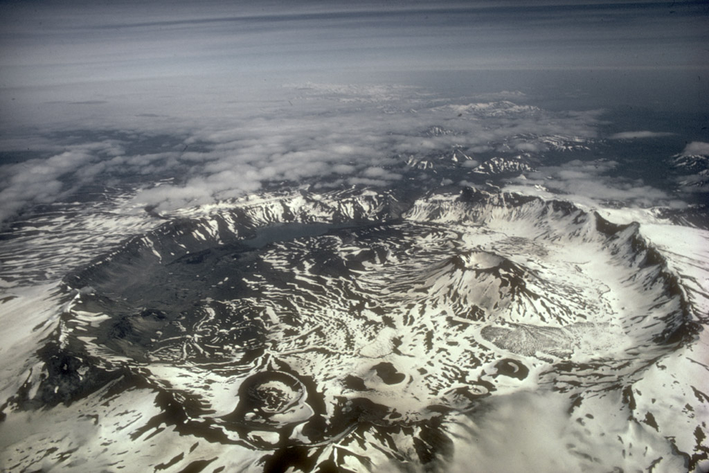 Aerial view, looking east, of Aniakchak caldera, one of the most spectacular volcanoes on the Alaska Peninsula. Formed during a catastrophic ash-flow producing eruption about 3,400 years ago, Aniakchak caldera is about 10 km (6 mi) across and averages 500 m (1,640 ft) in depth. Voluminous postcaldera eruptive activity has produced a wide variety of volcanic landforms and deposits within the caldera. The volcano is located in Aniakchak National Monument and Preserve, Alaska, which is administered by the National Park Service.